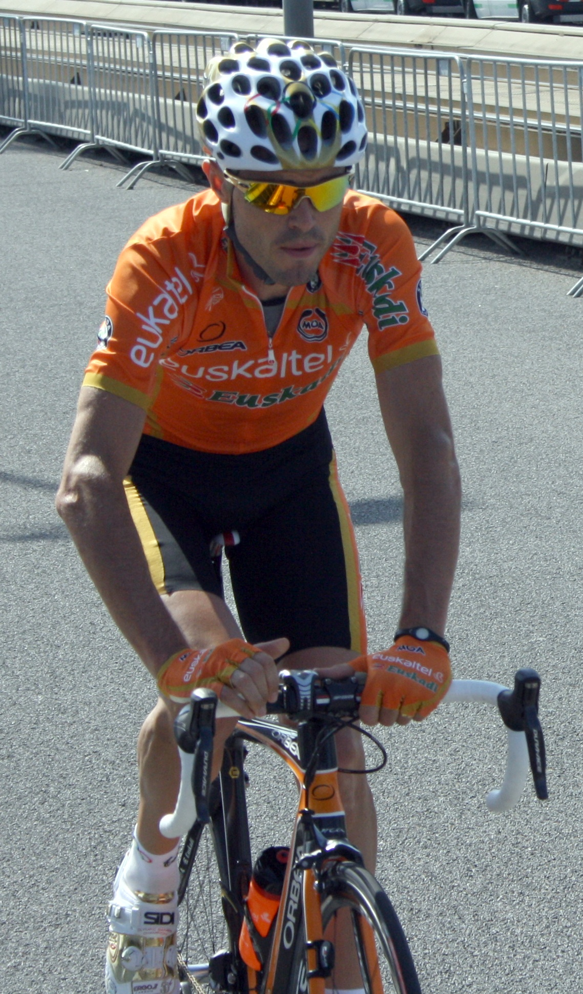 Samuel Sánchez training for the prologue of the 2010 Tour de France in Rotterdam